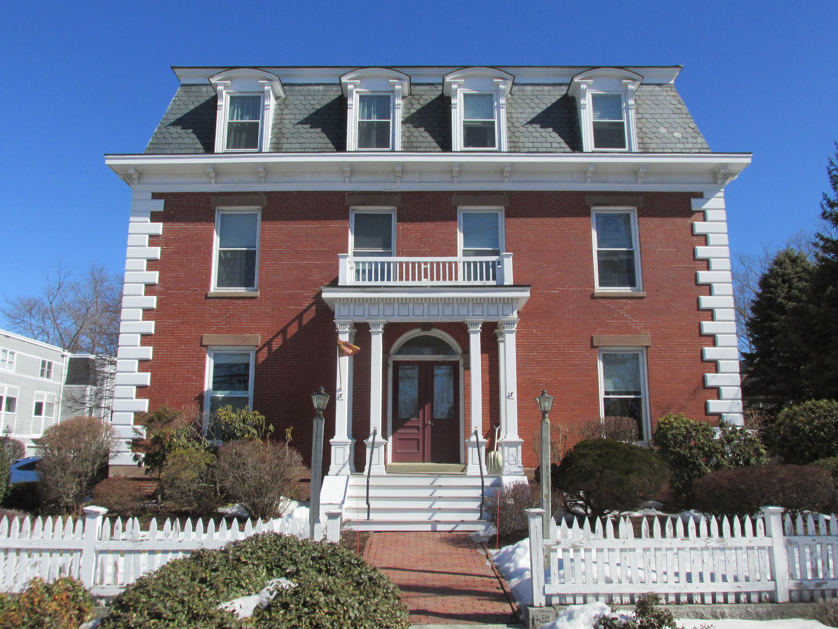 Browns Manor, 117 High Street, Ipswich Massachusetts